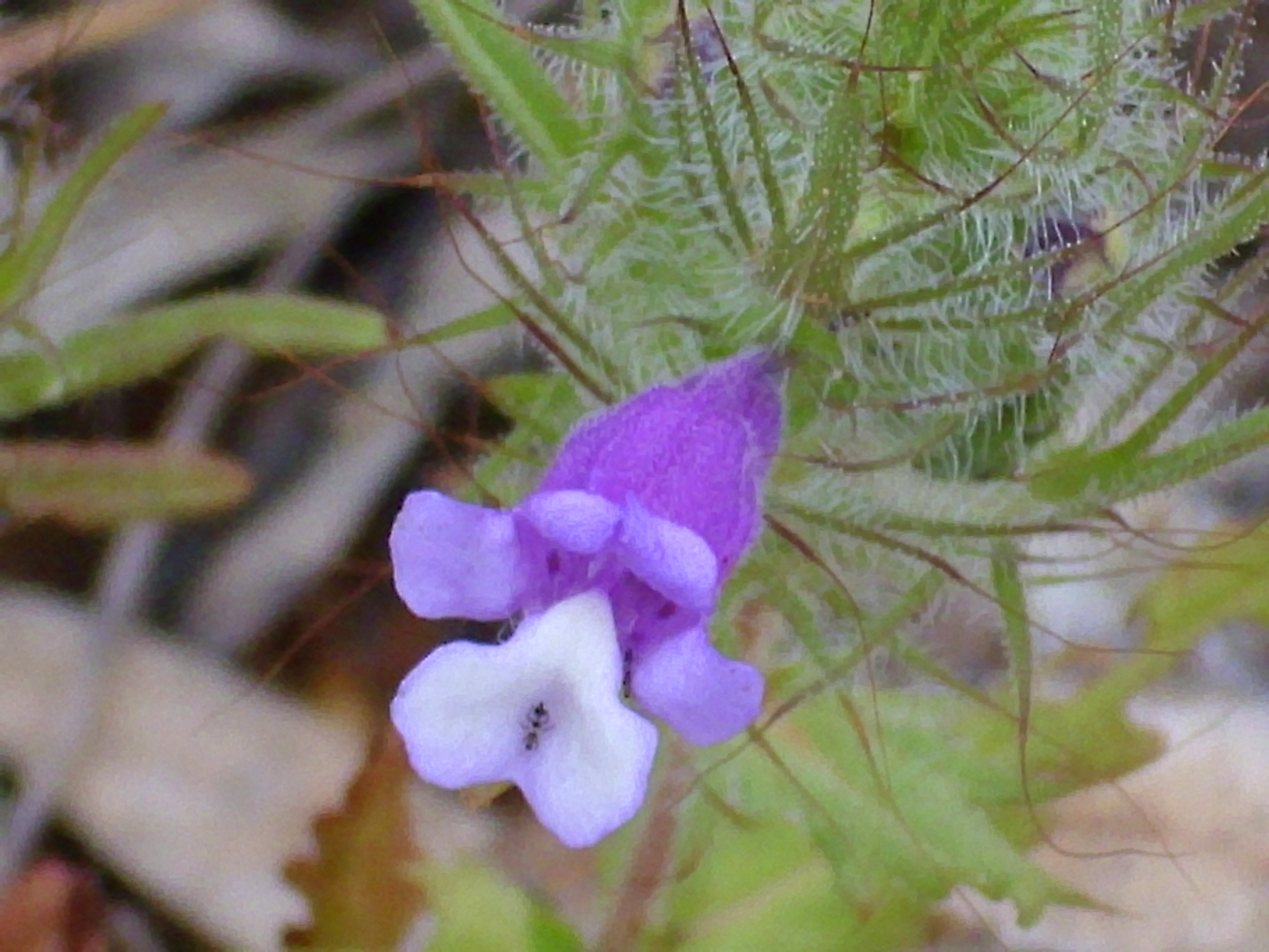 Cleonia lusitanica close up, Dehesa Boyal de Puertollano, Spain